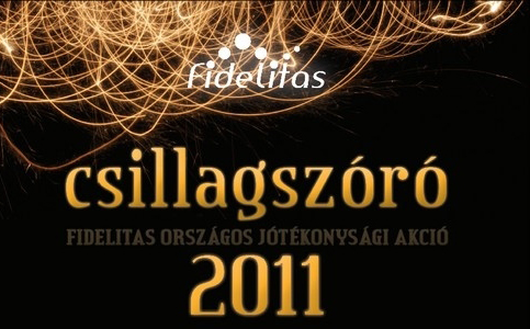 Fidelitas jótékonysági akció